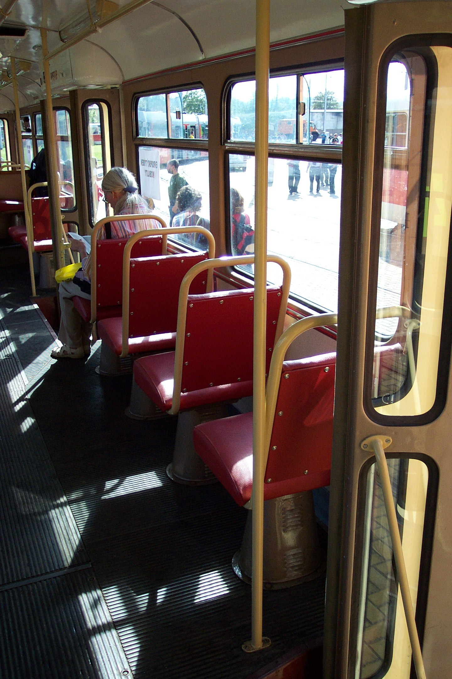 The Hloubětín depot during the opened doors day in september 2007. Prague, CZ